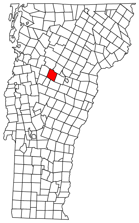 Description: Map of Vermont towns with Moretown highlighted Source: Map created by Jared C. Benedict on 26 March 2004. Copyright: © Jared C. Benedict.